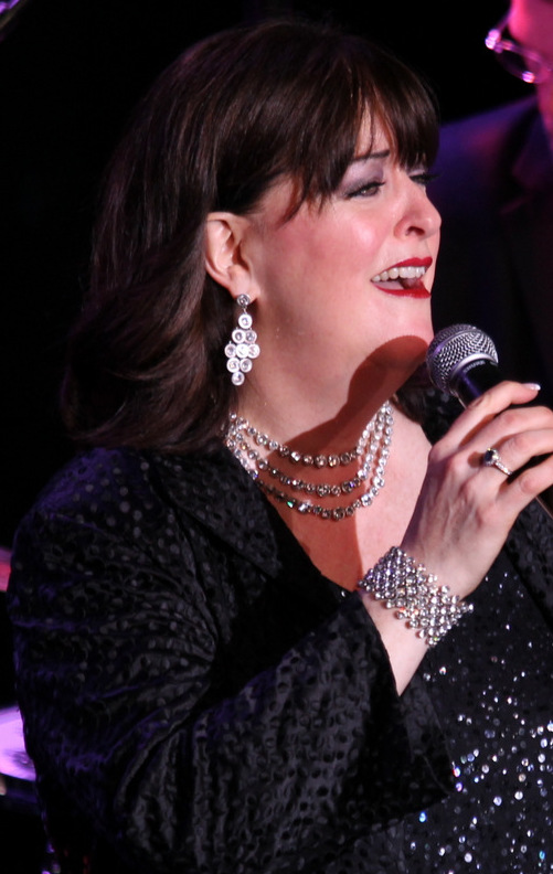 Ann Hampton-Callaway, Tim Horner